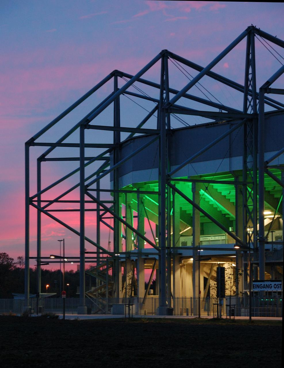 The Stadion im Borussia-Park, the home stadium of German soccer team Borussia Mönchengladbach